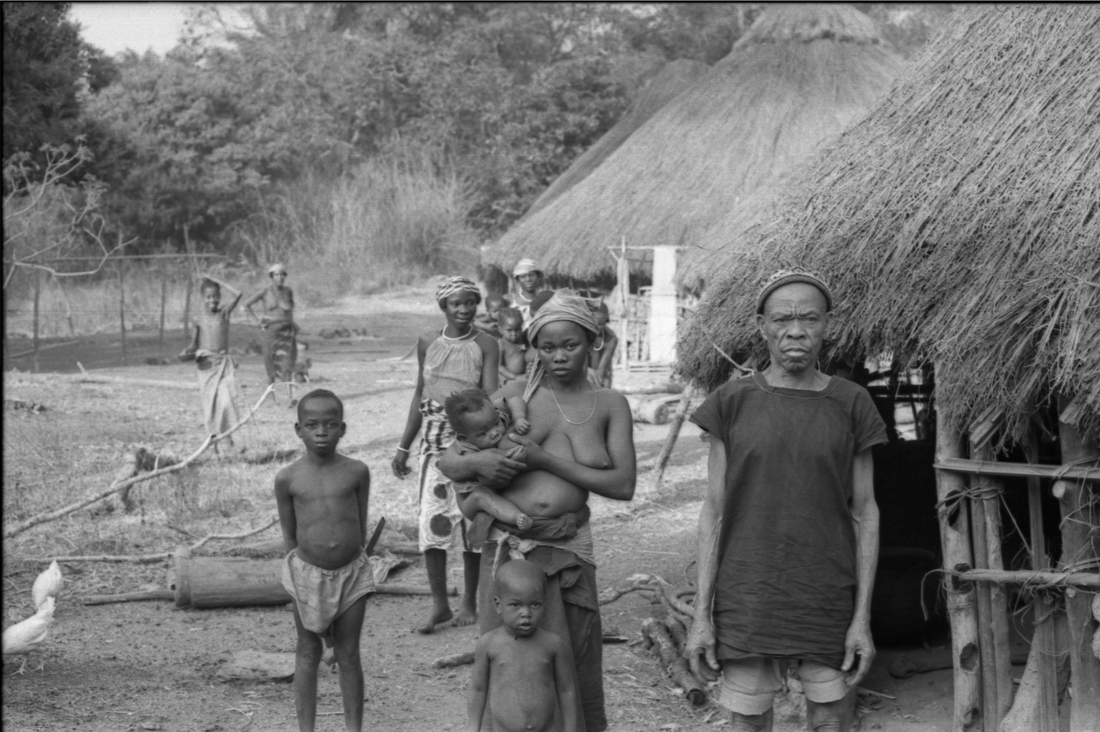 Kamakumba, Sierra Leone (West Africa) Photo taken February 6, 1968. Kamakumba (a Limba village in Wara-Wara Bafodia Chiefdom in northern Sierra Leone) was a long hike from the nearest road and showed very few signs of Western influence. The glum expressions are for one of the Paramount Chief's sons who accompanied me on the trip and was standing off to my right. They didn't like him (nor did I).